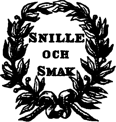 "Snille och smak" (Genius and taste) in a laurel wreath, seal of the Swedish Academy.